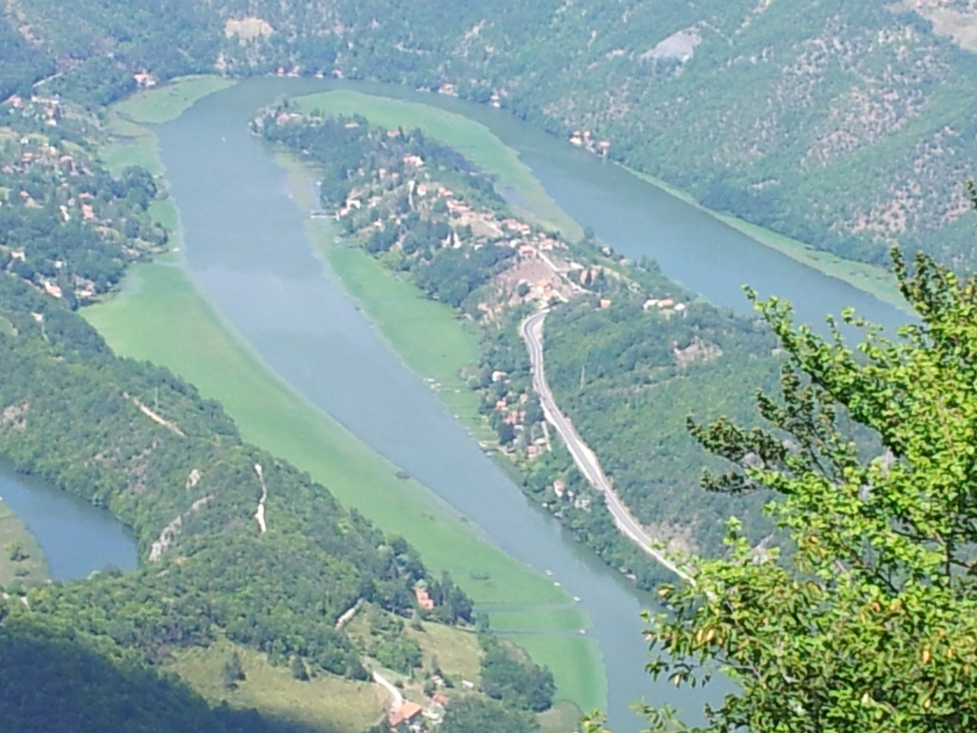 Чачак, Лучани